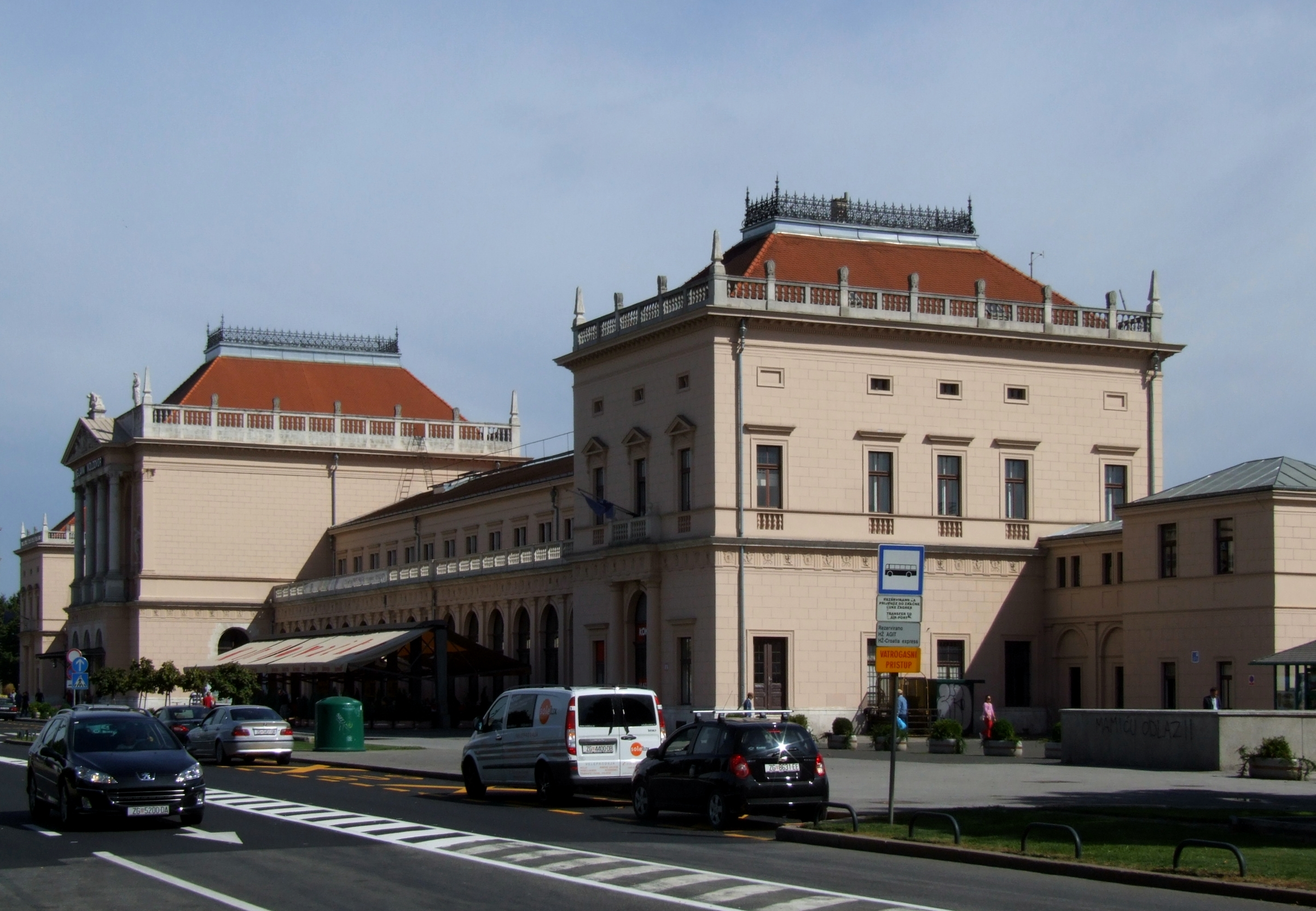 Zagreb Main Station